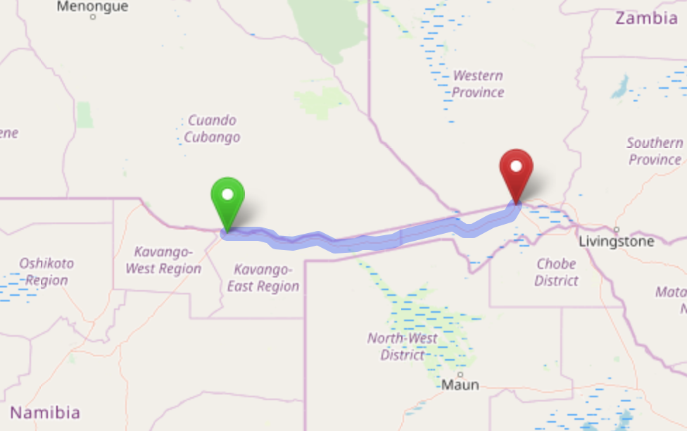 Map of the Trans-Caprivi highway in Namibia and Zambia This map of Zambia was created from OpenStreetMap project data, collected by the community. This map may be incomplete, and may contain errors. Don't rely solely on it for navigation.